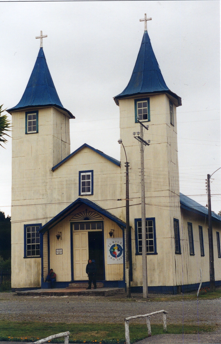 Church of Chacao, municipality of Ancud, Province of Chiloé, Los Lagos Region, Chile.